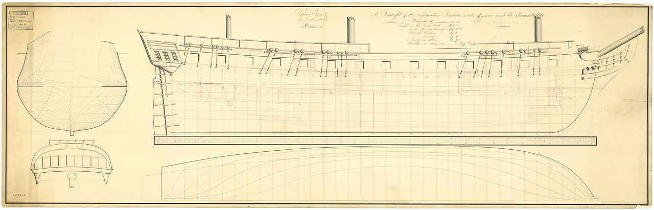 IMMORTALITE 1814 lines & profile NMM, Progress Book, volume 6, folio 308, states that 'Immortalite' (1814) arrived at Portsmouth Dockyard on 18 August 1814 and had her copper removed to lighten the draught in March 1817. She was recoppered in March 1822, and undocked on 25 March, and fitted for a receiving ship. She was sold in January 1837 for £1,610.